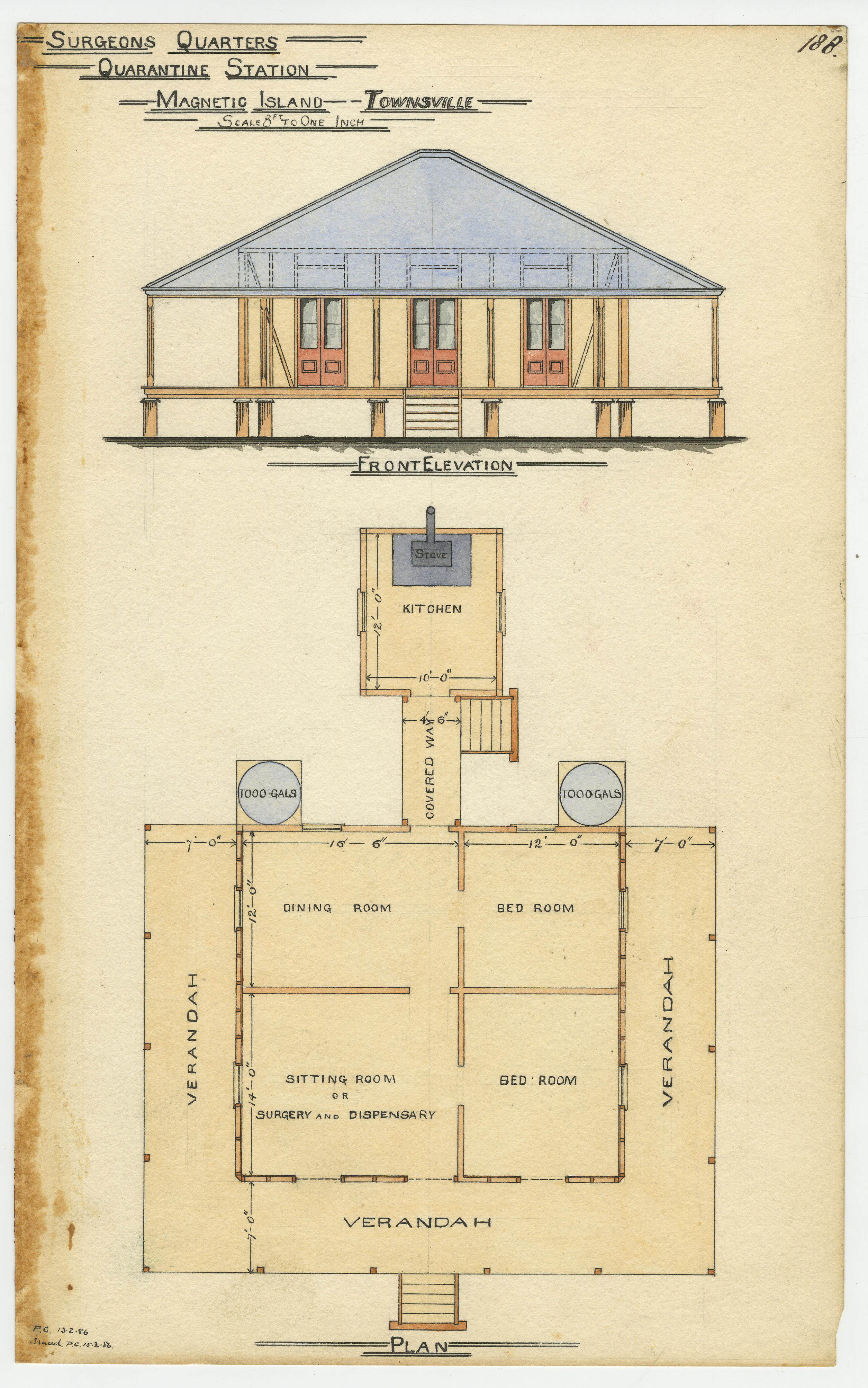 Architectural drawing of the Surgeon's Quarters, Quarantine Station, Magnetic Island, 1886